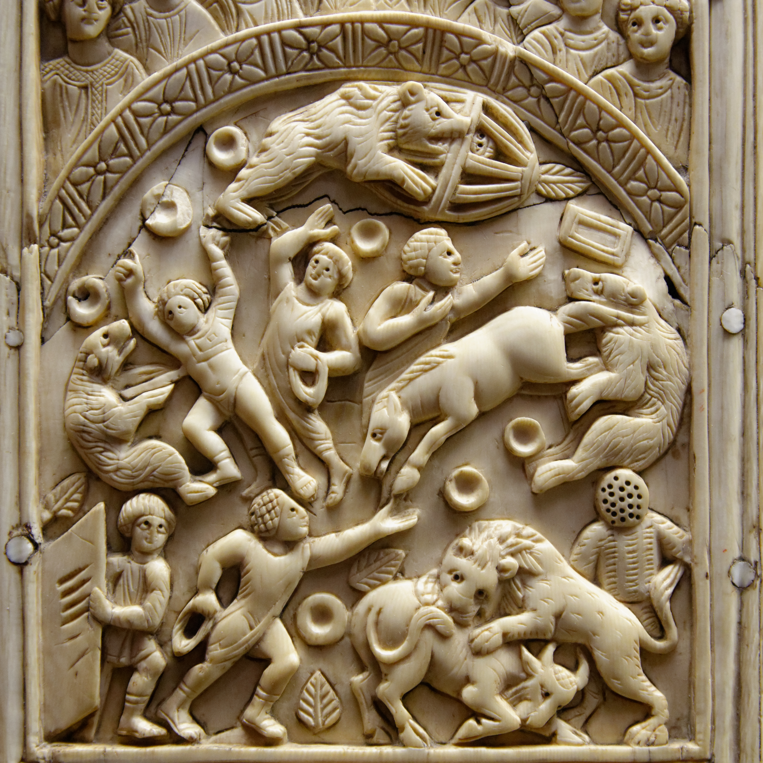 Leaf from a diptych with Consul Areobindus presiding over the games.